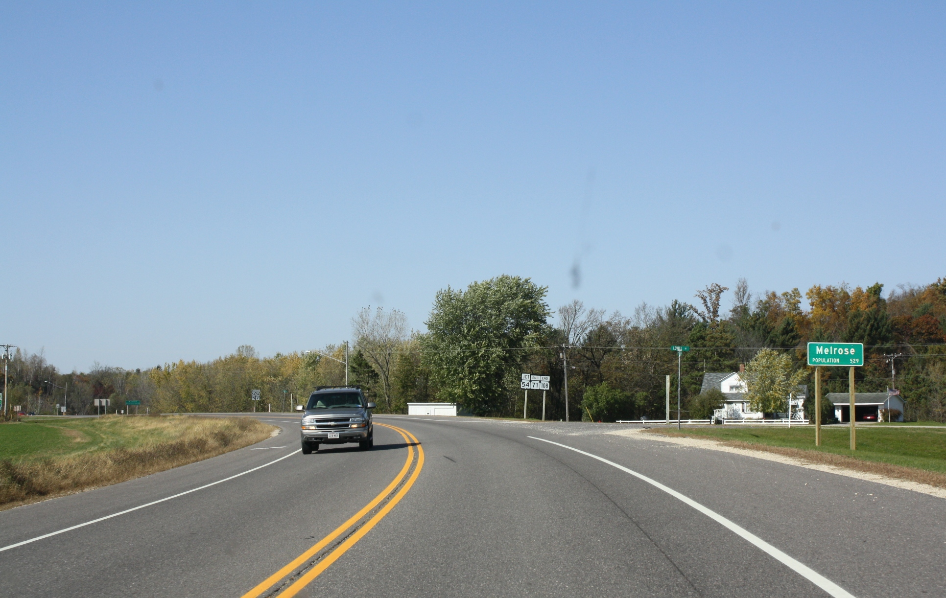 The sign for Melrose, Wisconsin at the northern termini for Wisconsin Highway 108 and Wisconsin Highway 71.